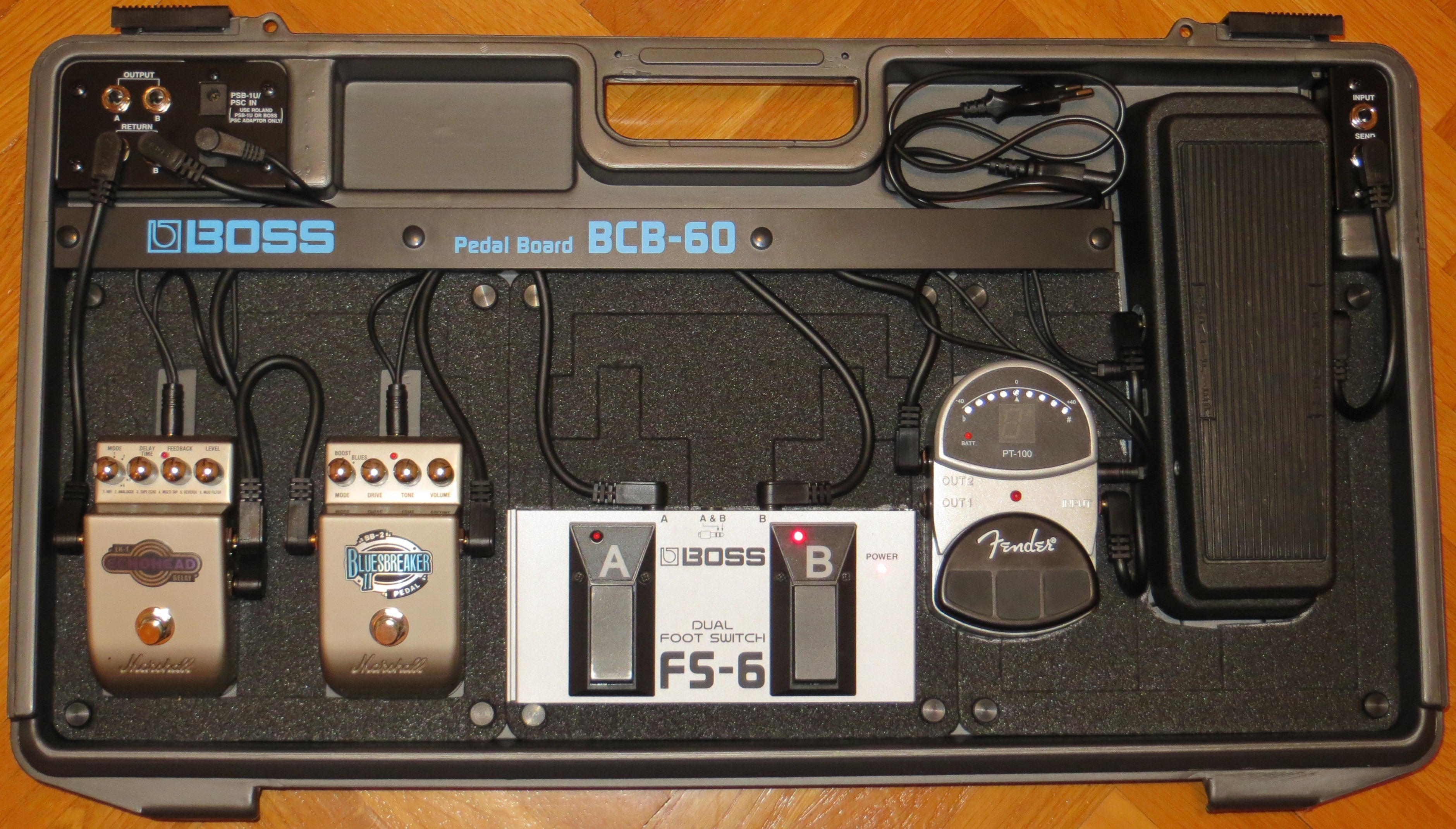 BOSS BCB-60 pedalboard